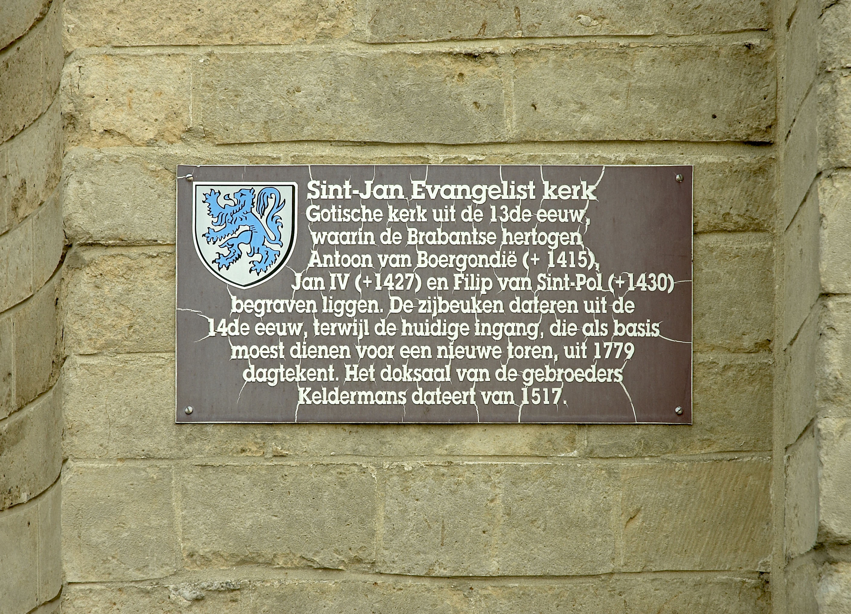 Info about Sint-Jan Evangelist church in Tervuren, Belgium